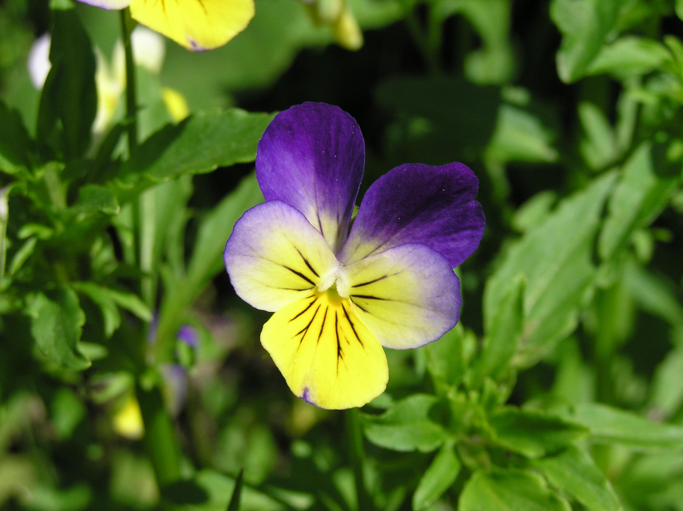 Author: Tom.k